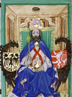 Charles IV, Holy Roman Emperor